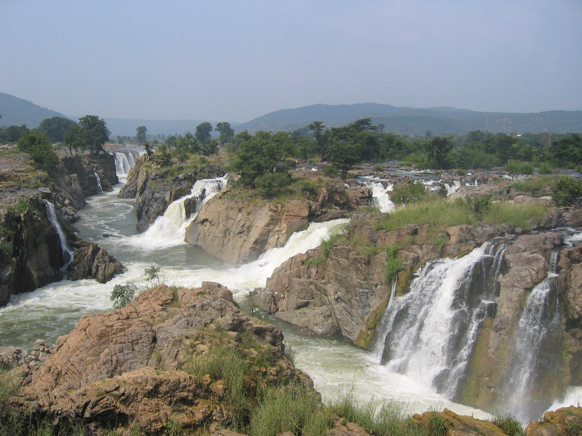 Hogenakal Falls, Karnataka